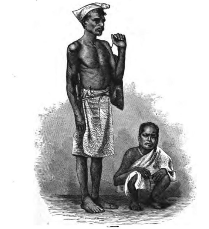 A Chogan (Ezhava) man and woman, pg 95 of Native Life in Travancore.